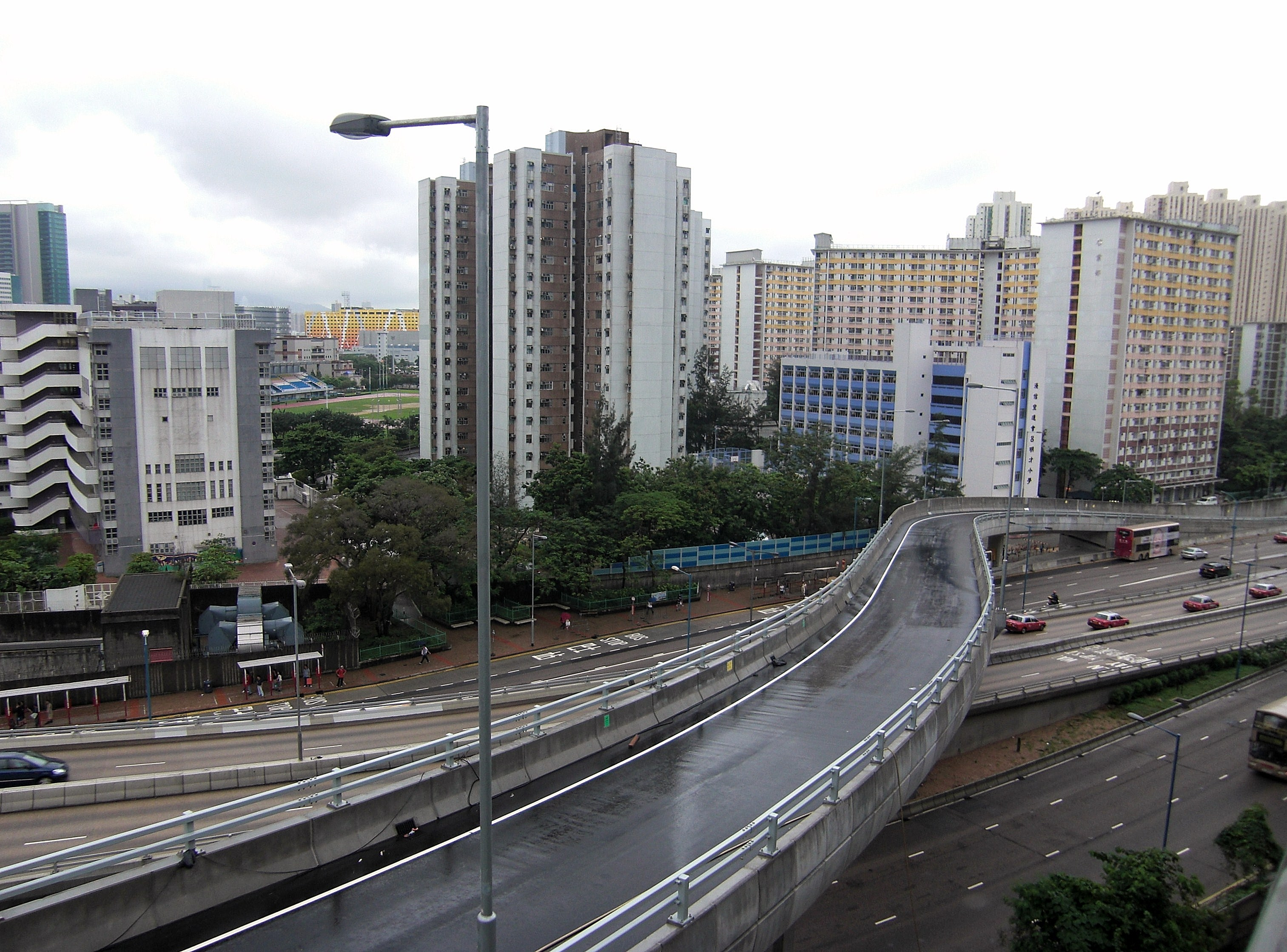 General view of Choi Ha Road Branch Road.